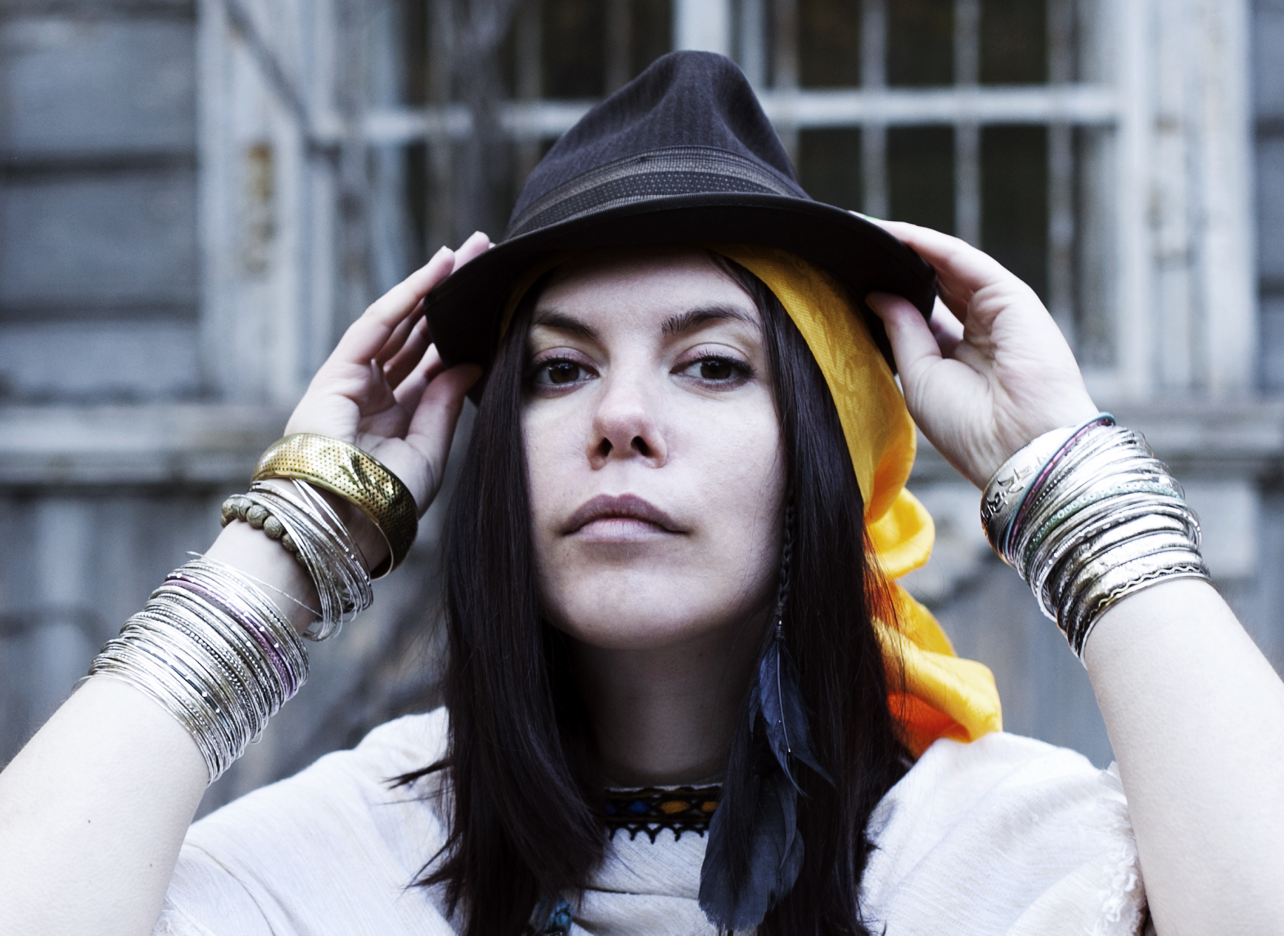 The portrait of Yana Veva (Theodor Bastard musical group) by Anna Rozhetskaya (cropped version)